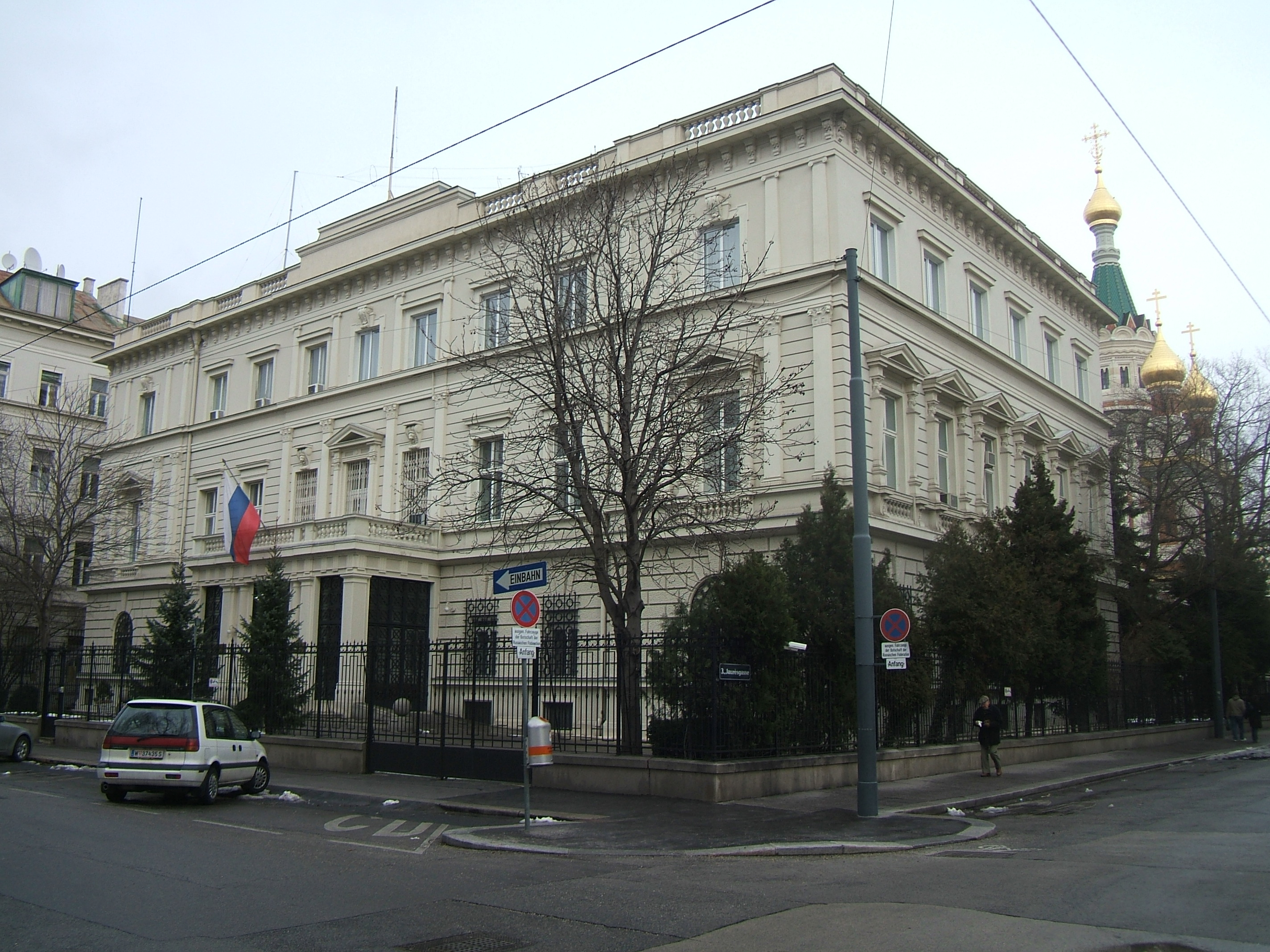 Palais Nassau in Vienna 3rd district Reisnerstraße 47, Embassy of the Russian Federation